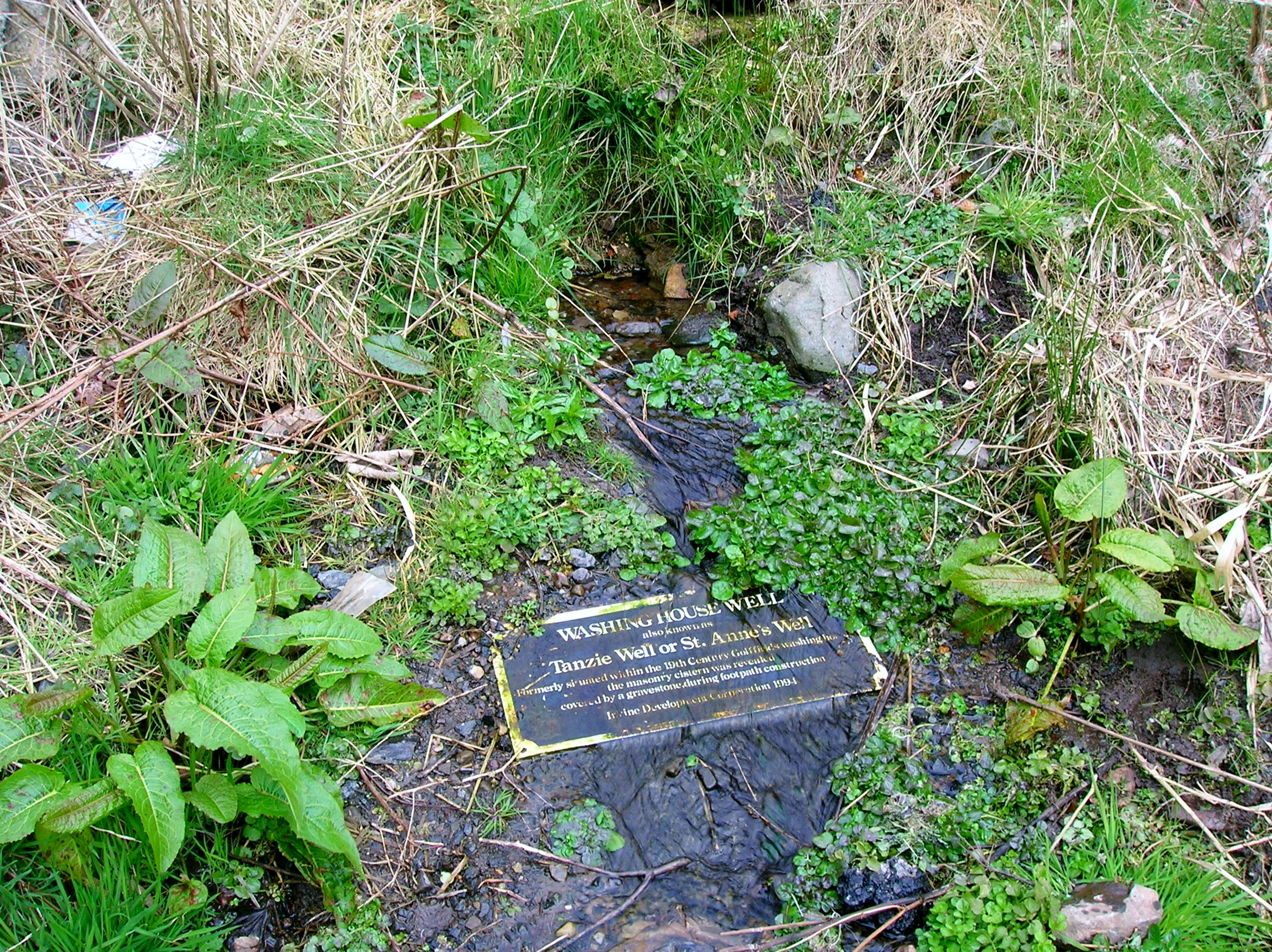 The Tanzie Well, possibly a corruption of saint Anne's Well. Also known as the Washing House Well. Irvine, North Ayrshire, Scotland.